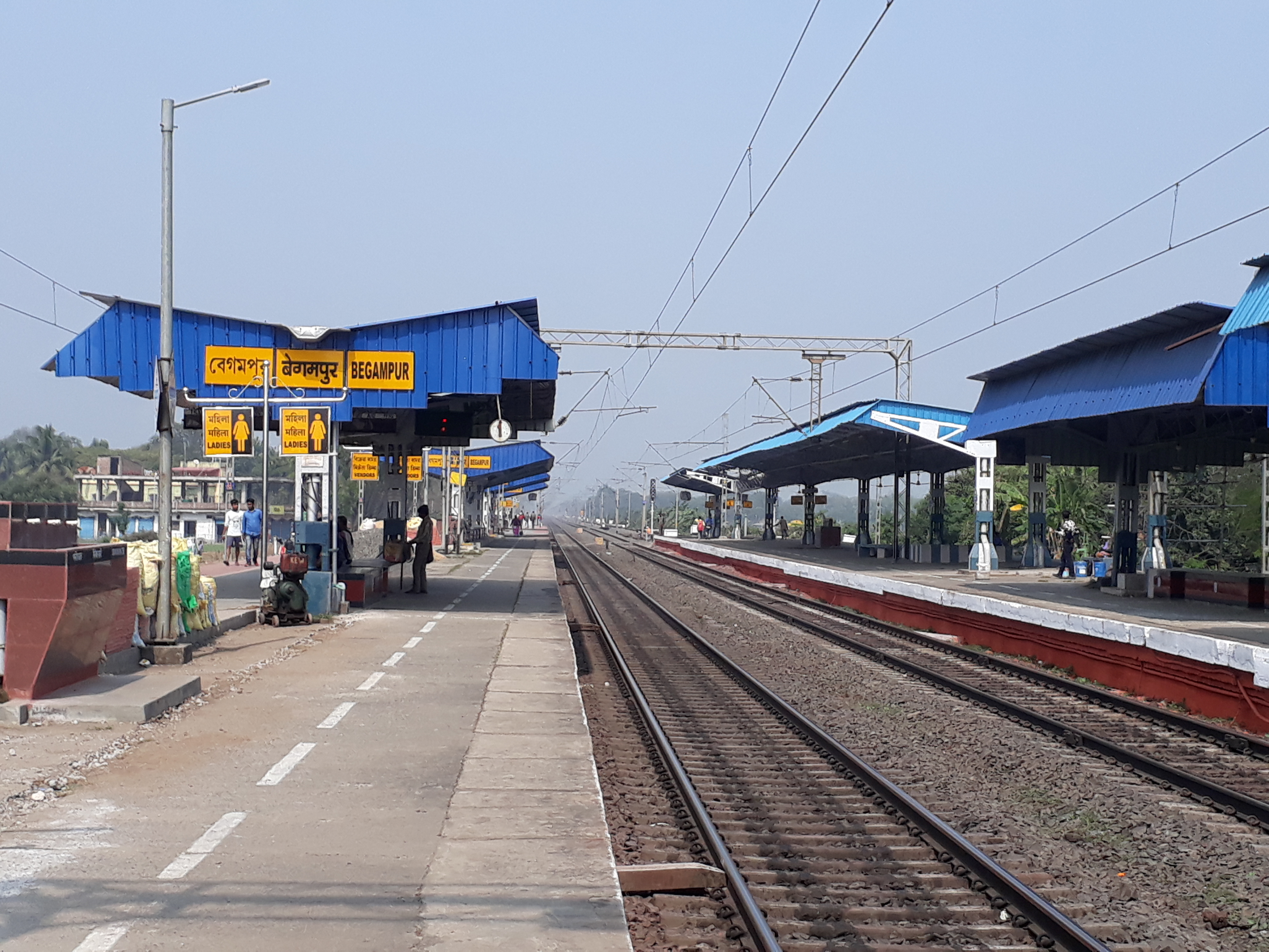 Begampur railway station in Howrah Bardhaman cord line, Hooghly district, west Bengal